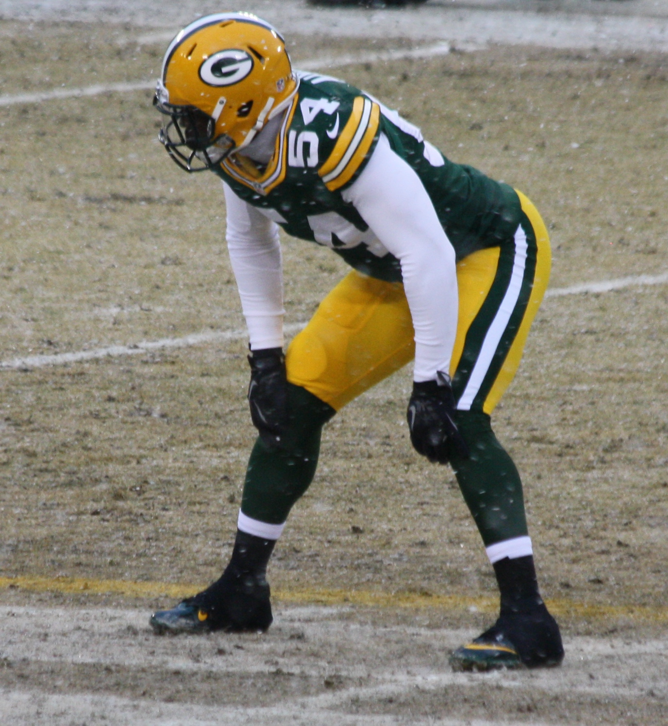 Green Bay Packers player Victor Aieywa lined up against the Pittsburgh Steelers.